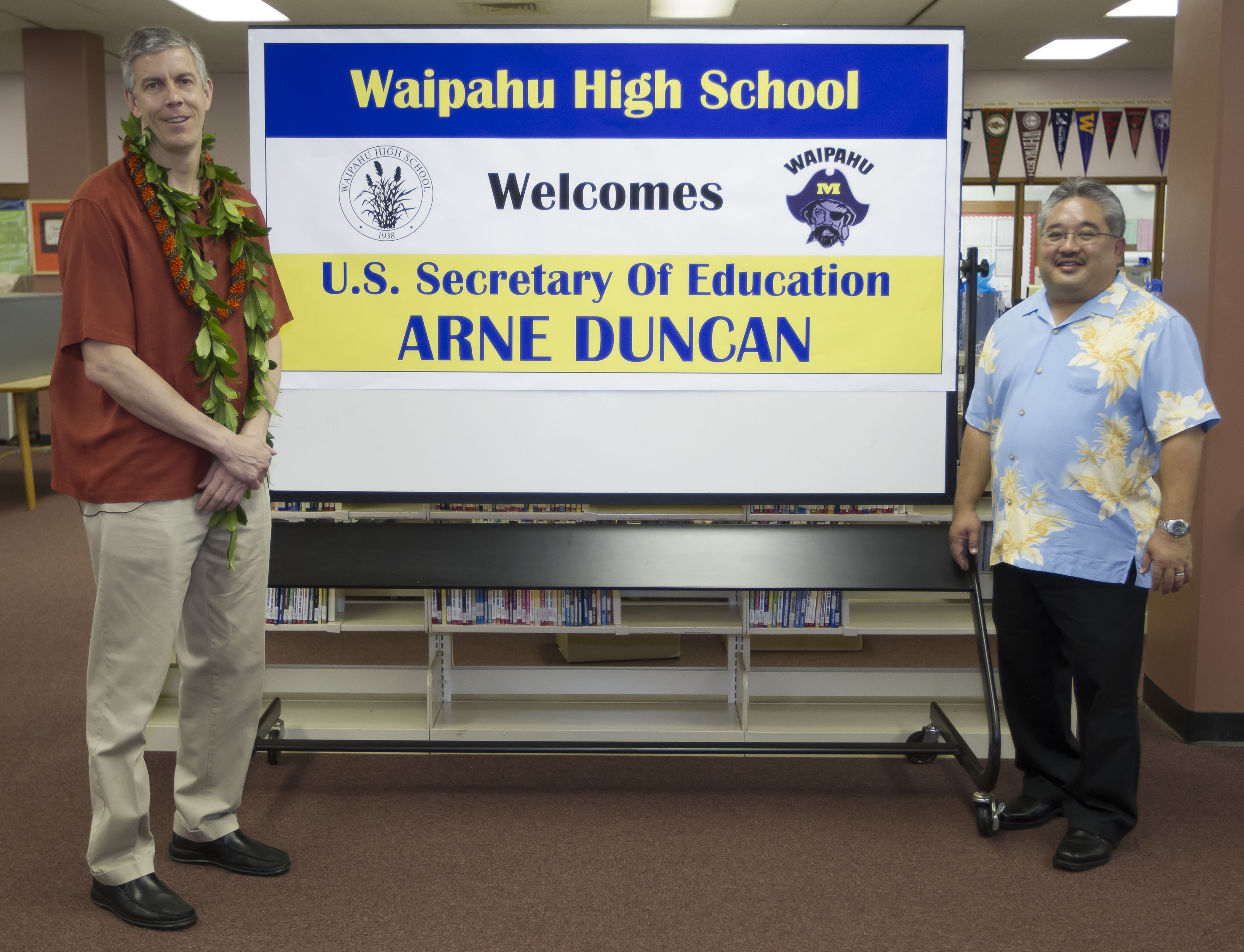 U.S. Department of Education Secretary Arne Duncan, left, poses for a picture with Keith Hayashi, right, Principal of Waipahu High School during his visit to the school School Monday, March 31, 2014, in Waipahu, Hawaii. Photo By Eugene Tanner